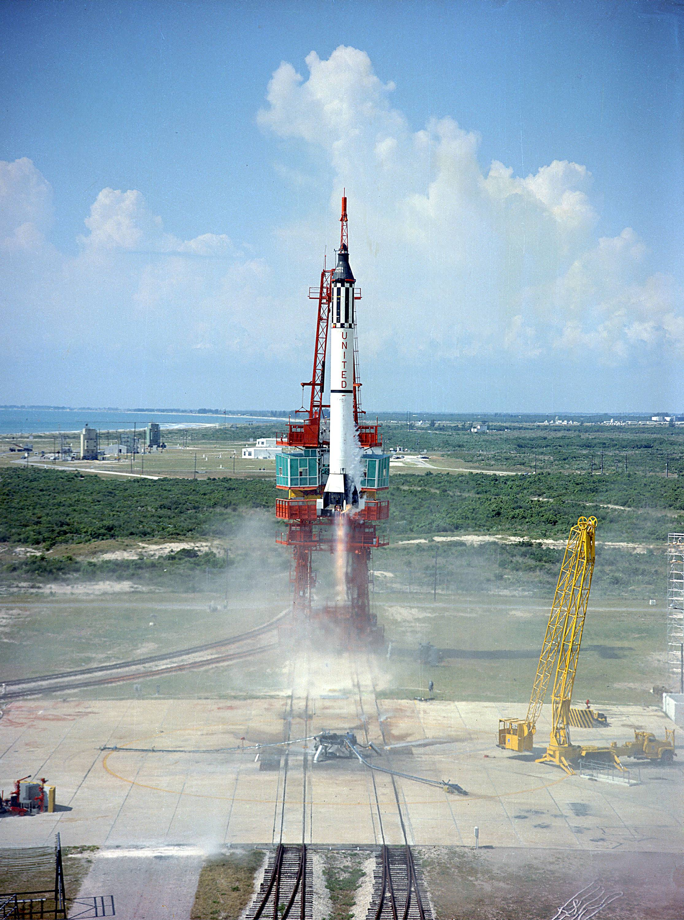 Launch of Freedom 7, the first American manned suborbital space flight. Astronaut Alan Shepard aboard, the Mercury-Redstone (MR-3) rocket is launched from Pad 5.